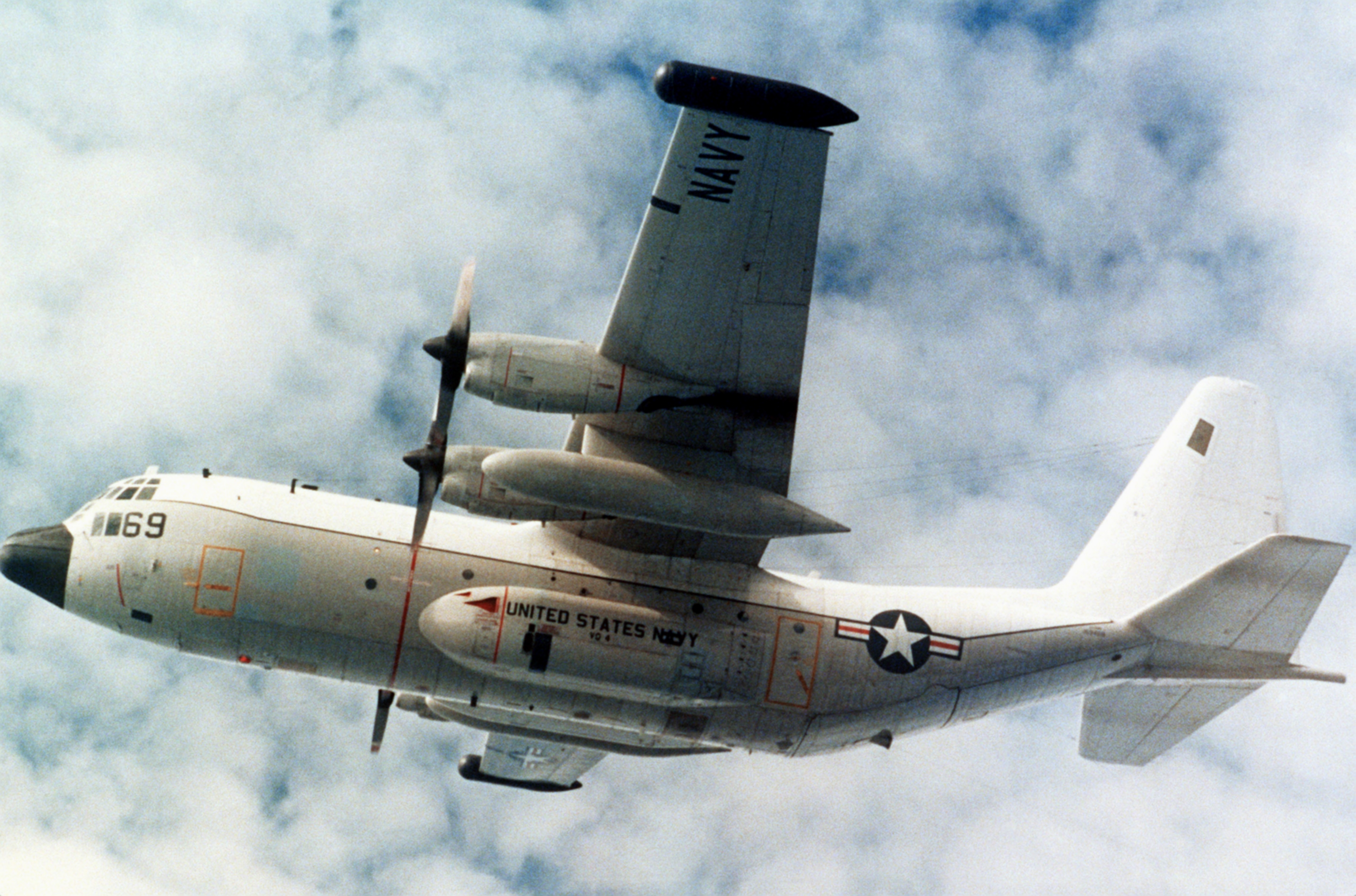 A U.S. Navy Lockheed EC-130Q-LM Hercules (BuNo 159469) from Fleet Air Reconnaissance Squadron 4 (VQ-4) at Naval Air Station Patuxent River, Maryland (USA), in flight. The squadron was part of the TACAMO (Take Charge and Move Out) system, providing communications with ballistic missile submarines. The EC-130Q 159469 was retired to the AMARC on 16 September 1991.